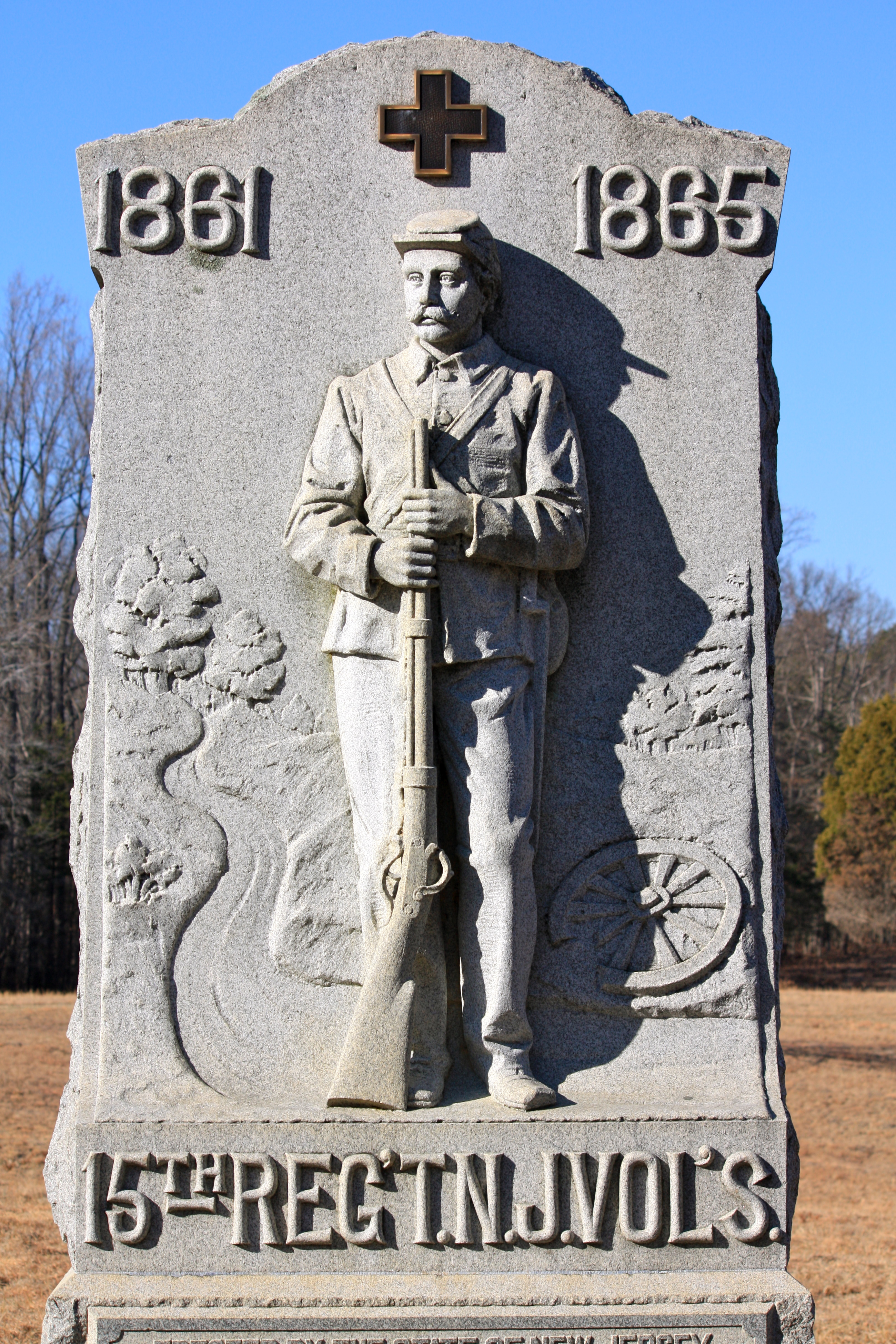 A monument dedicated to the 15th Regiment New Jersey Volunteers at the Spotsylvania Courthouse Battlefield, part of the Fredericksburg and Spotsylvania National Military Park.